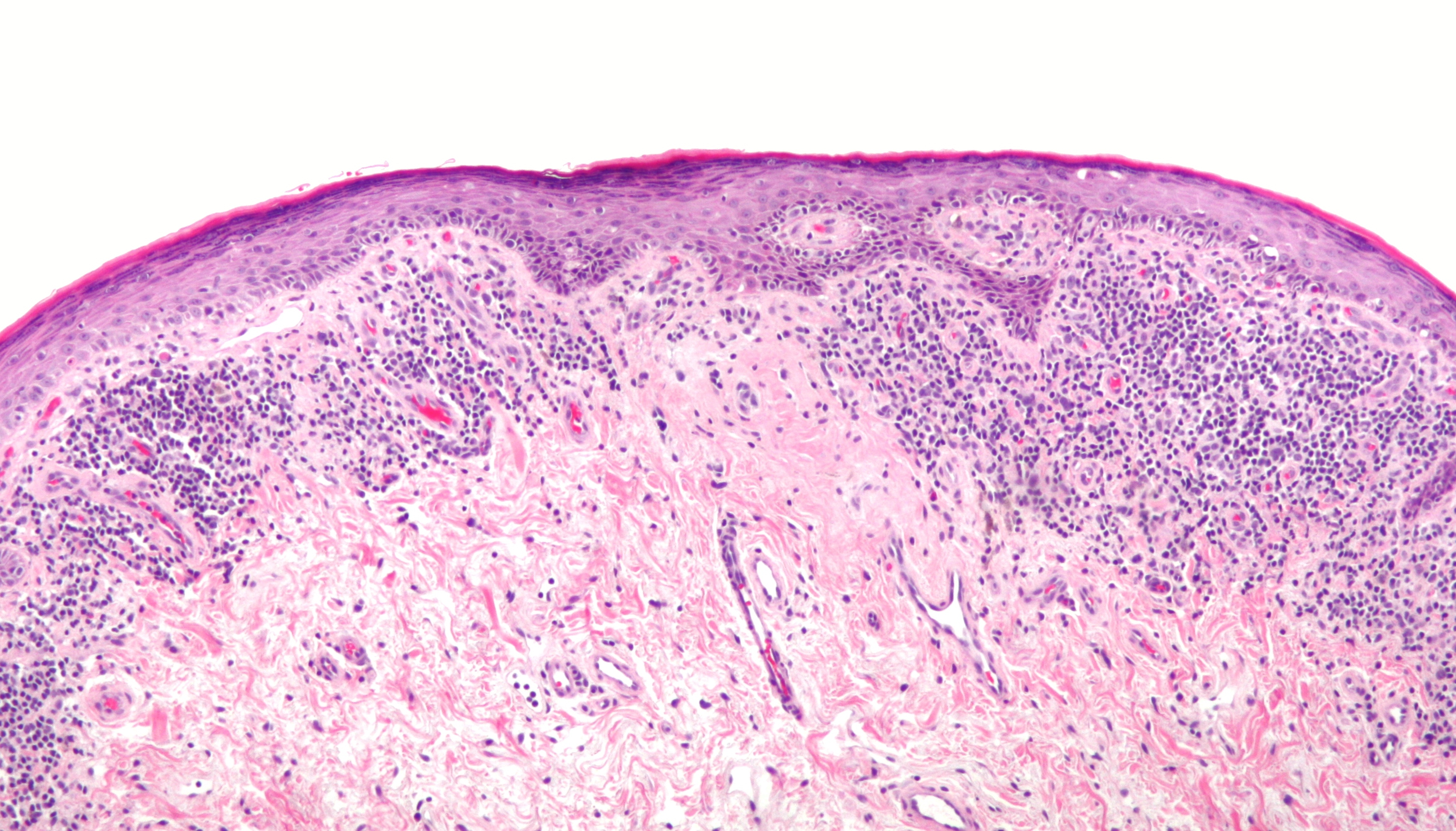 Micrograph of lichen planus. H&E stain. Features: Loss of rete ridges. Loss of basal cells (stratum basale). Interface dermatitis (lymphocytes at dermal-epidermal junction). Related images Intermed. mag.